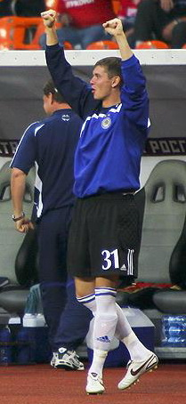 Stanislav Bohush